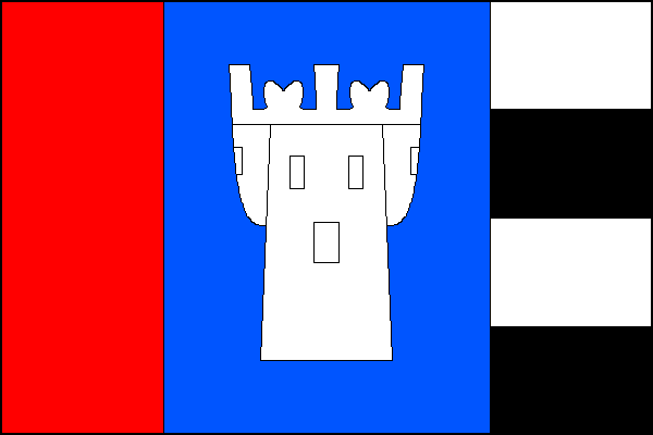 Municipal flag of Nesovice village, Vyškov District, Czech Republic.